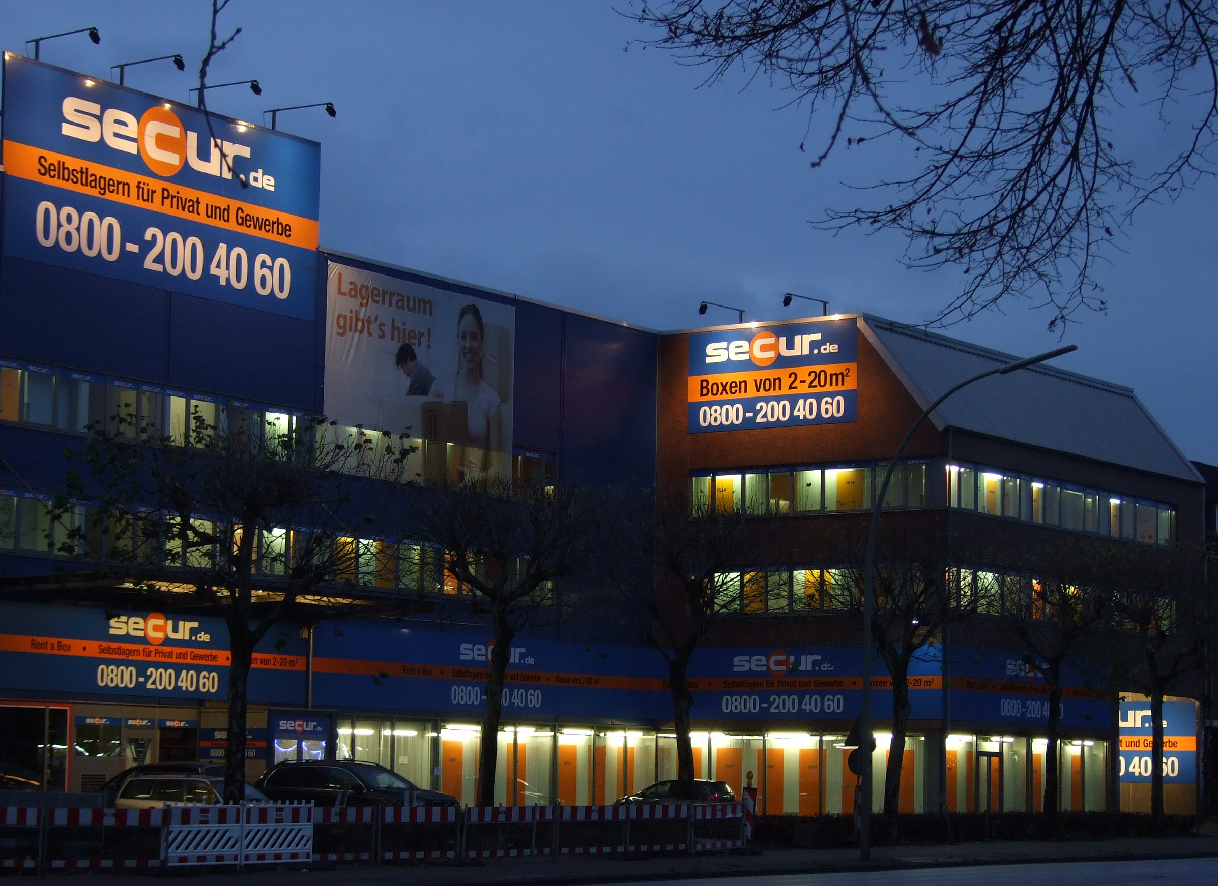 Self storage building in Hamburg, Germany.